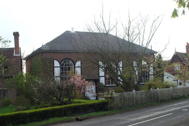 Former Baptist Chapel, Shovers Green